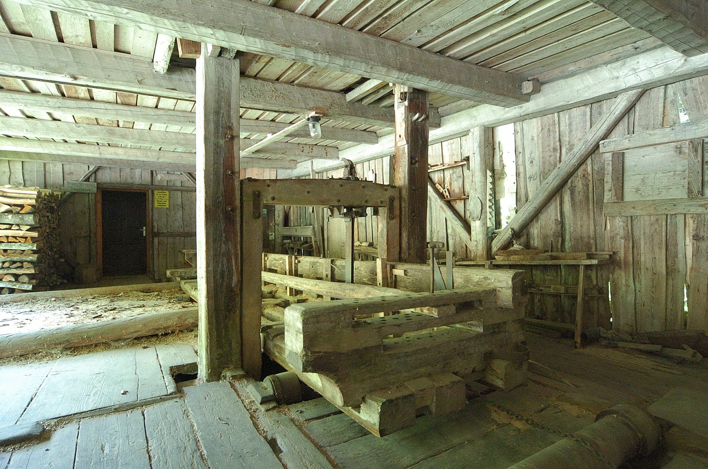 Old saw-mill, still in use, at Zell, Carinthia, Austria